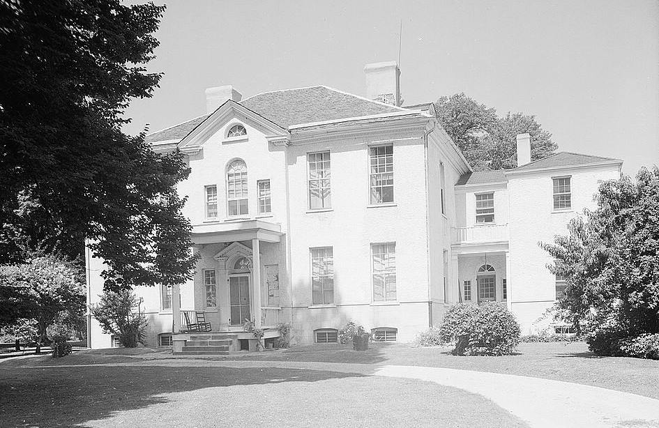 Compton Bassett: Historic American Buildings Survey John O. Brostrup, Photographer July 23, 1936 10:05 A. M. VIEW FROM NORTHEAST (front) HABS MD,17-MARBU.V,3-2